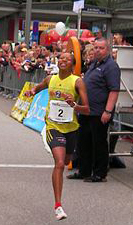 Ruth Wanjiru seen in the Hamburg Half marathon, in yellow, as number 2. Cropped from